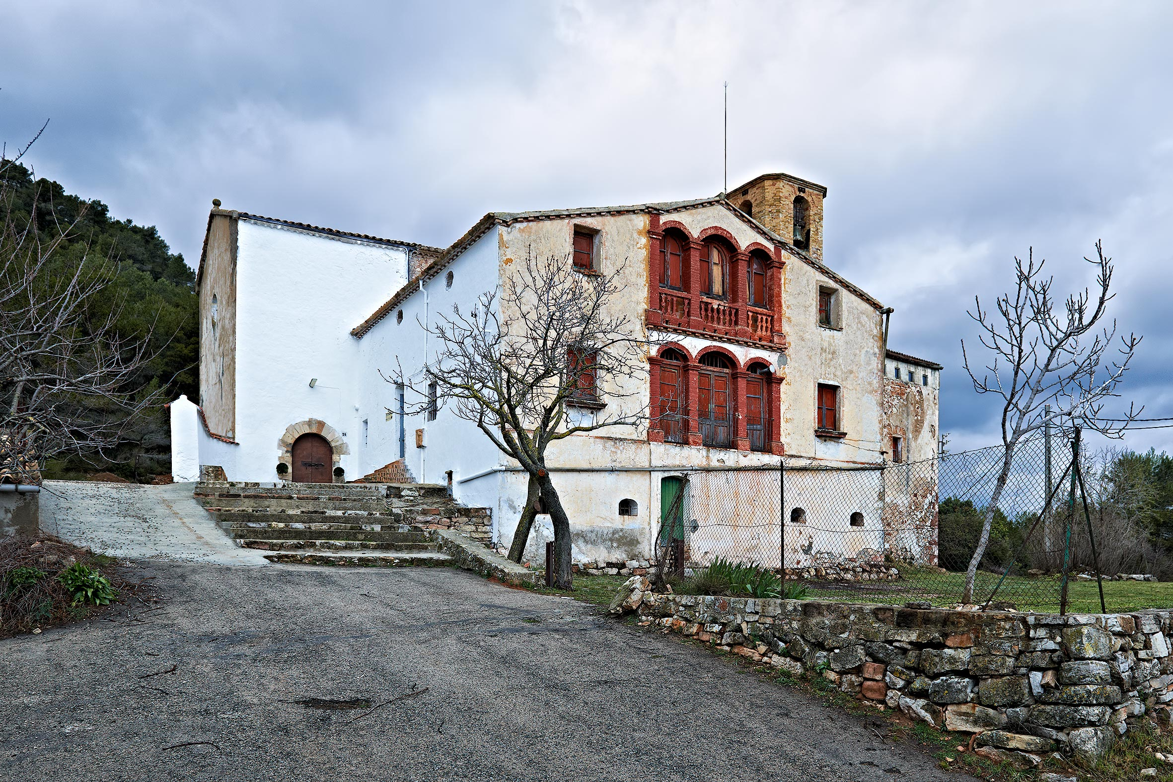 Santa Maria church of Font Rubí, Catalonia, Spain.